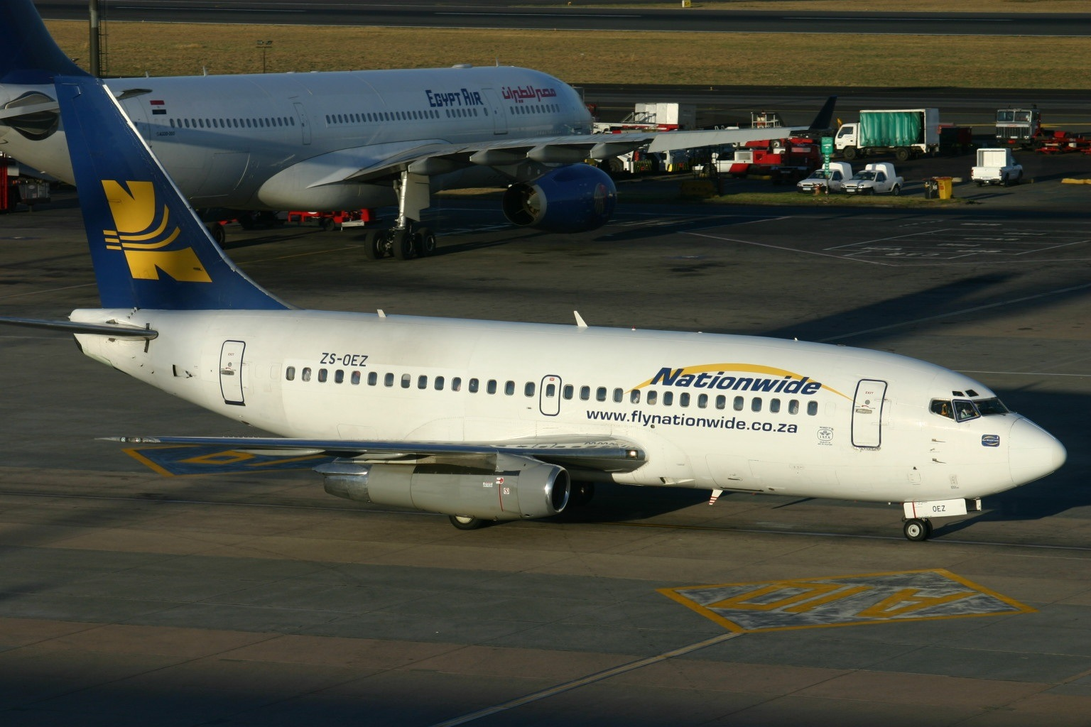 At Johannesburg OR Tambo International